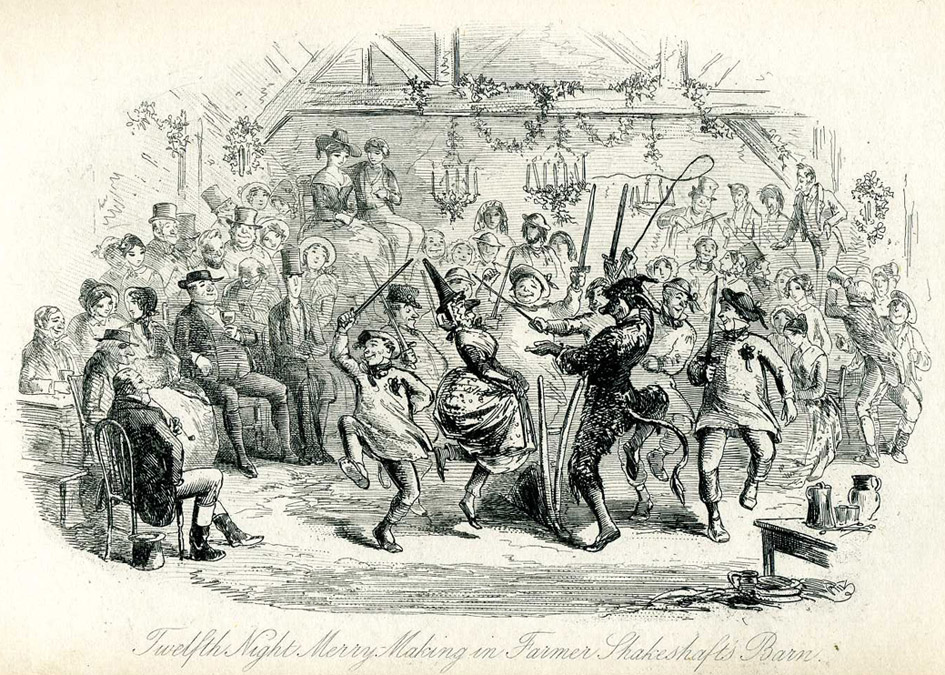 "Twelfth Night Merry-Making in Farmer Shakeshaft's Barn", from Ainsworth's Mervyn Clitheroe, by Phiz